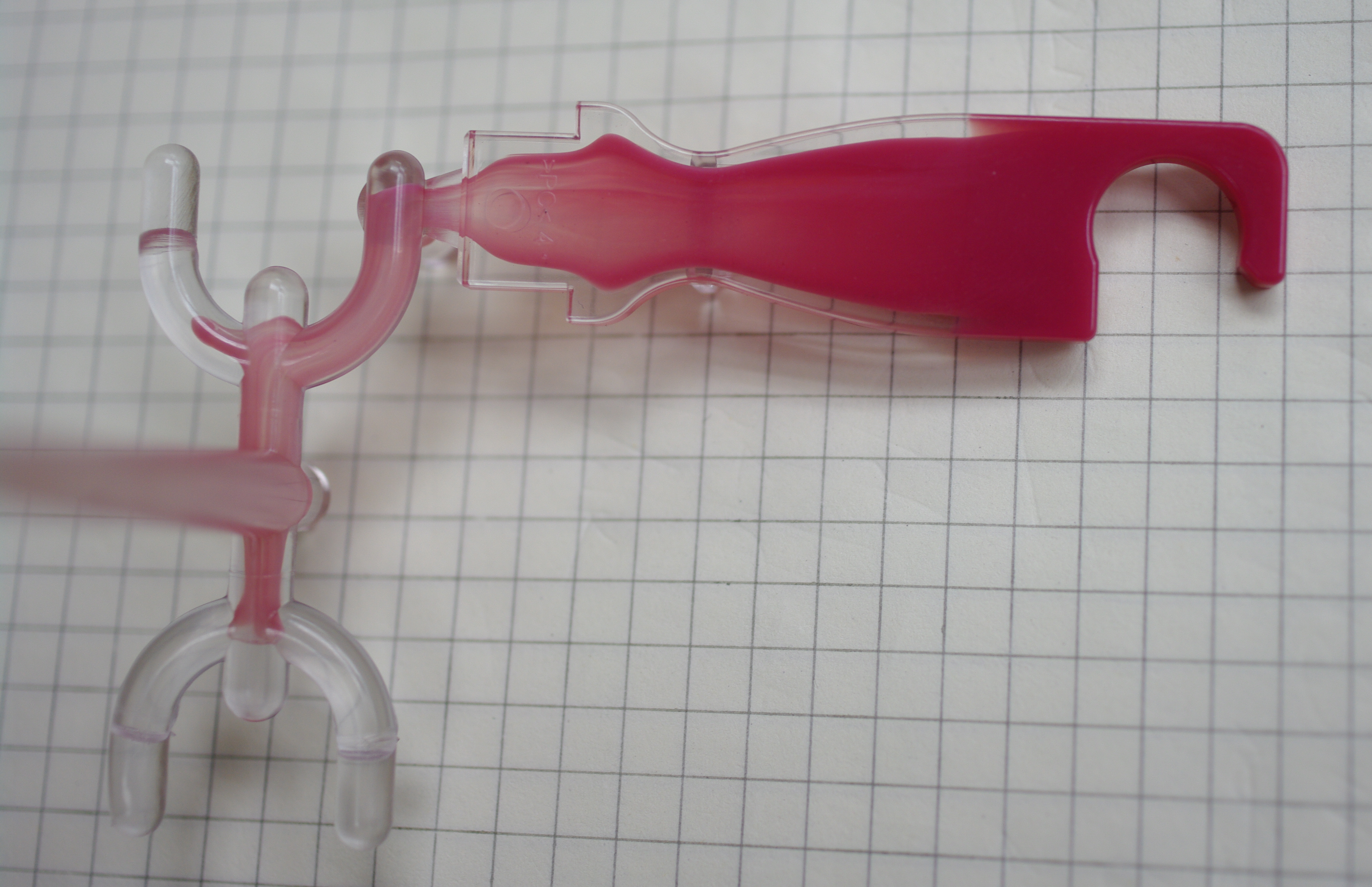 plastic injection molded part using Co-injection (or sandwich) processe